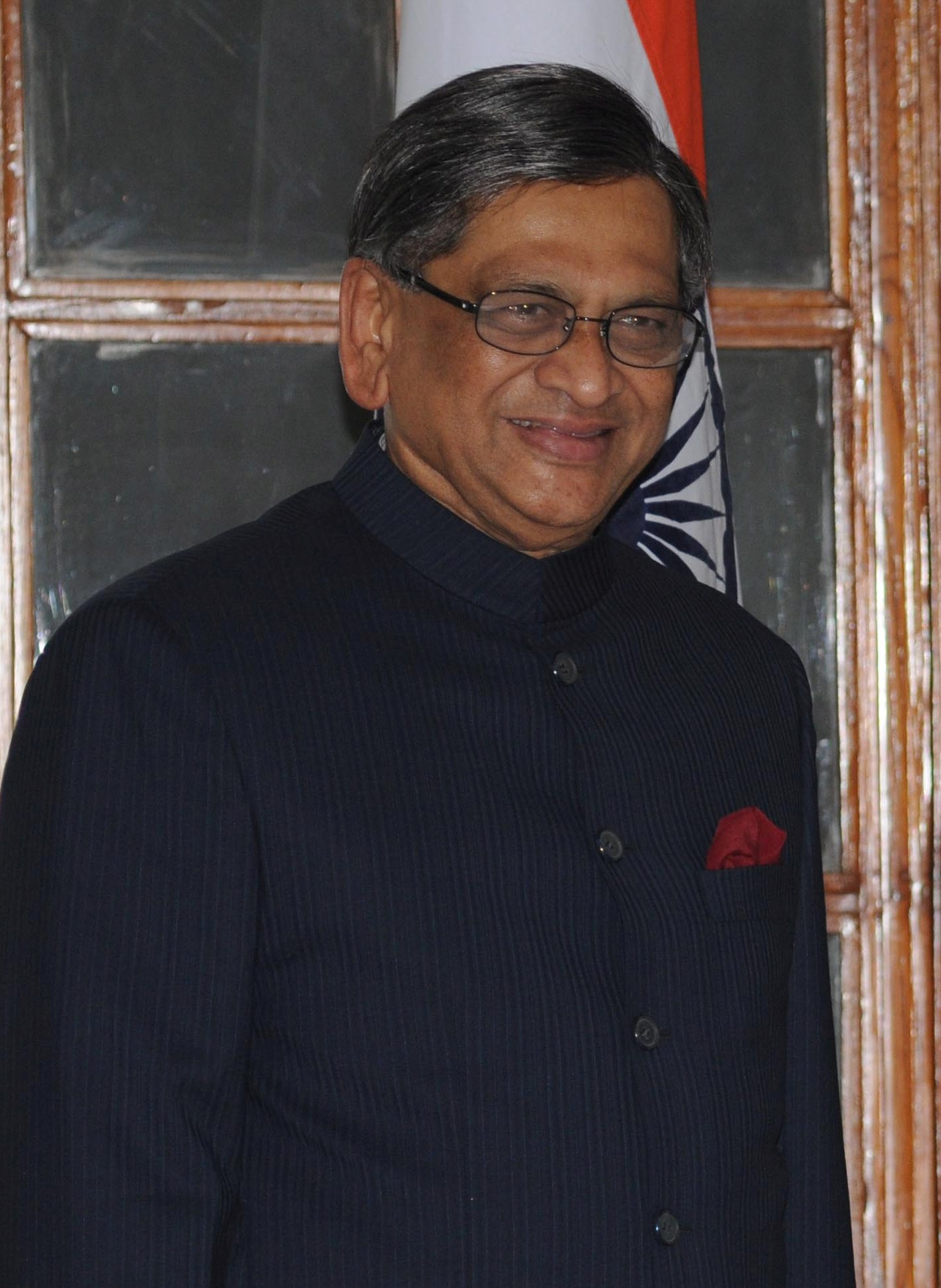 Indian Minister of External Affairs S.M. Krishna in New Delhi